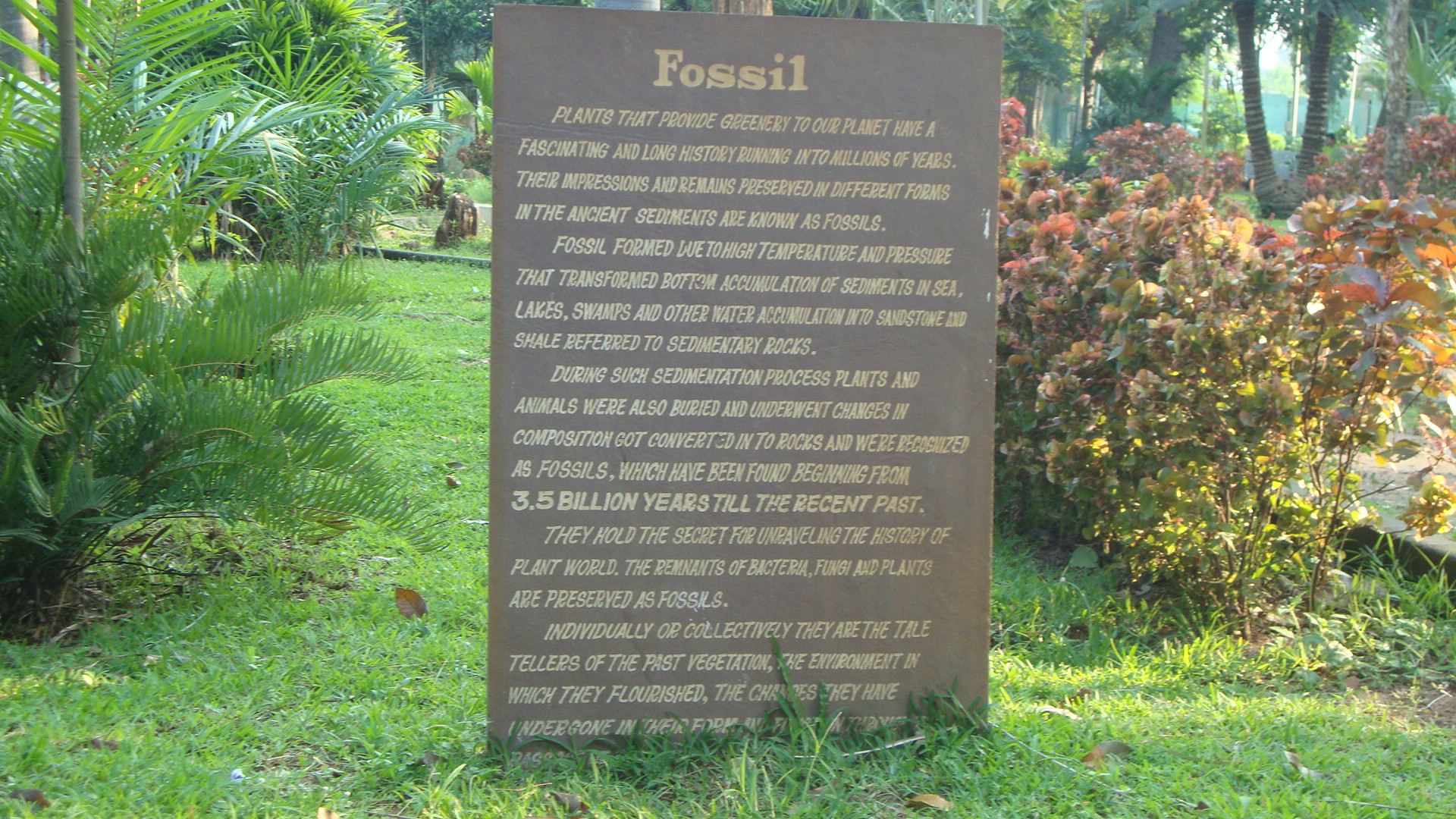 fossil